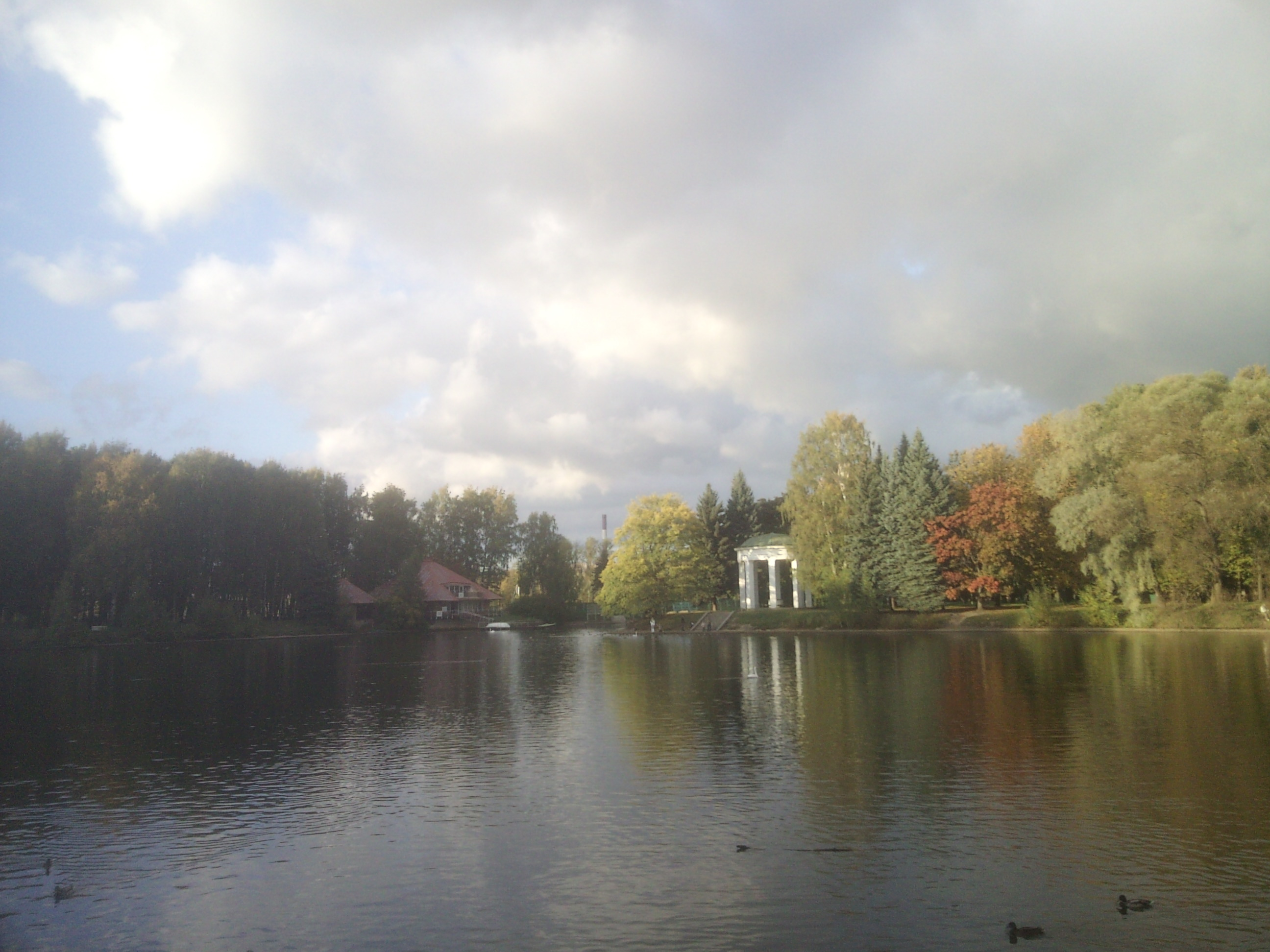 The Second northern pond in Seaside park of a Victory. St.-Petersburg, Russia. A photo September, 2010.